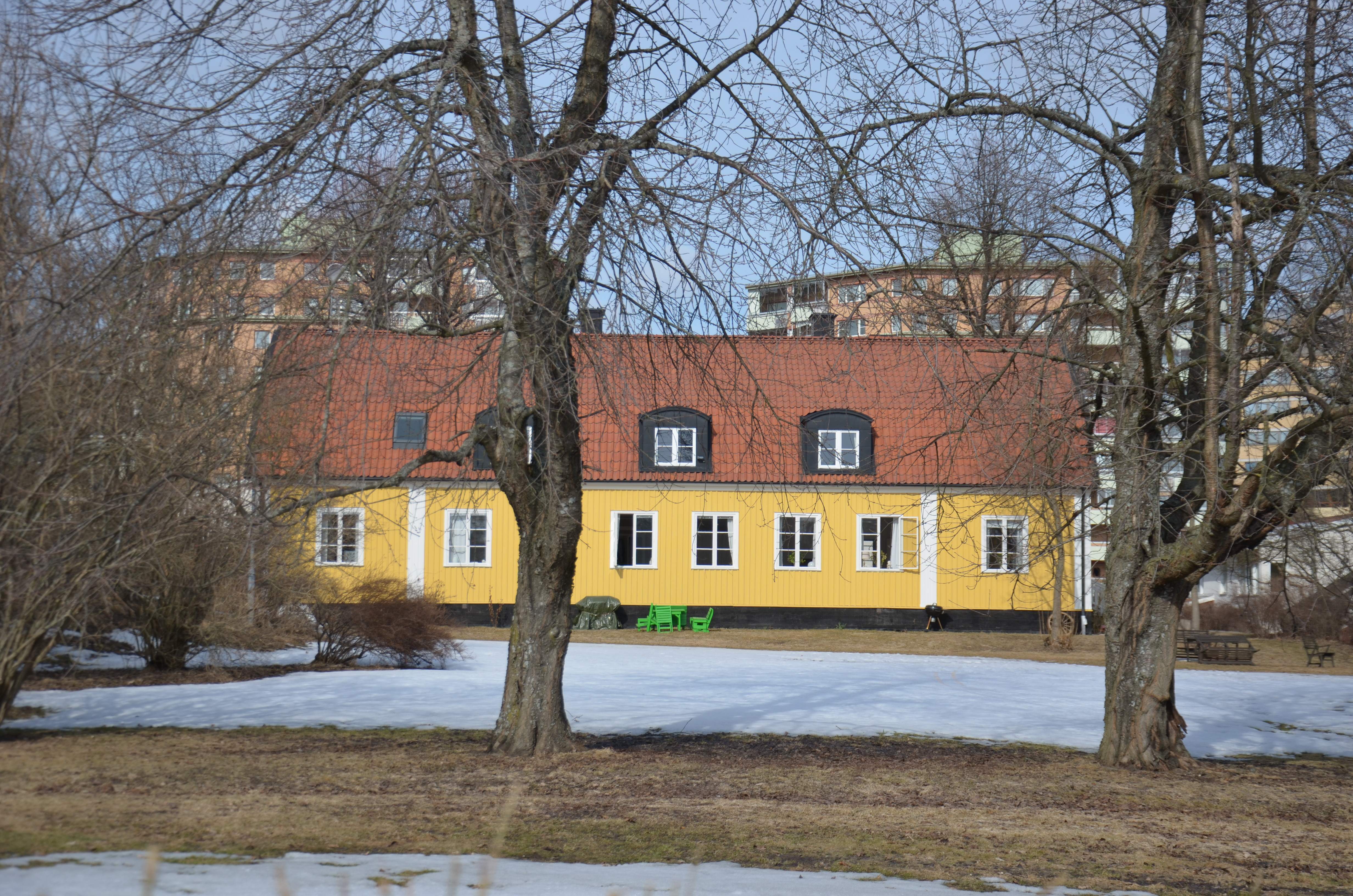 Föreståndarbostaden till tidigare Statens centrala frökontrollanstalt, Bergshamra, Solna